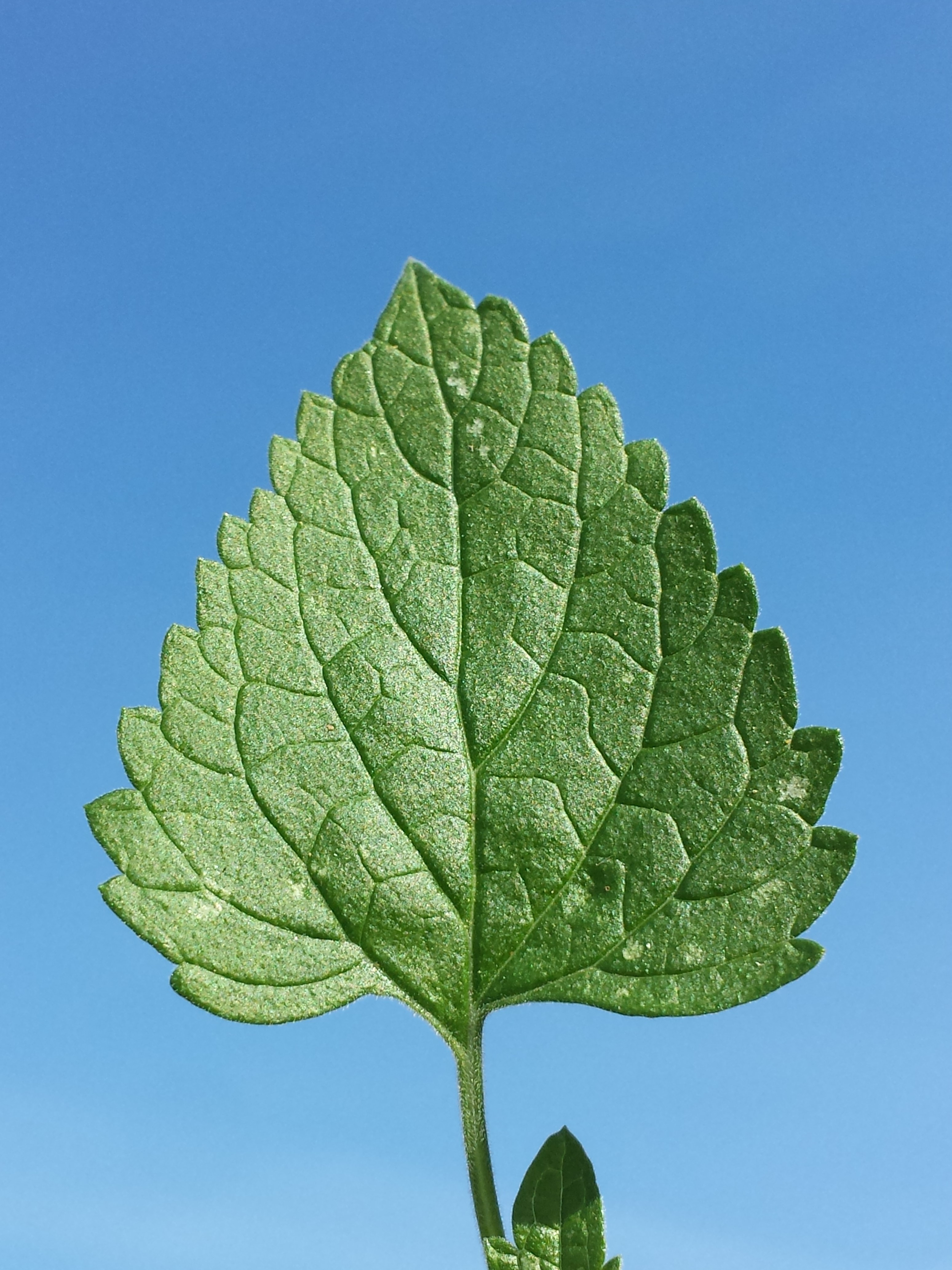 Leaf (top side) Taxonym: Nepeta cataria ss Fischer et al. EfÖLS 2008 ISBN 978-3-85474-187-9 Location: semi-dry grasslands southeast of Traunfeld, district Mistelbach, Lower Austria - ca. 220 m a.s.l. Habitat: slope